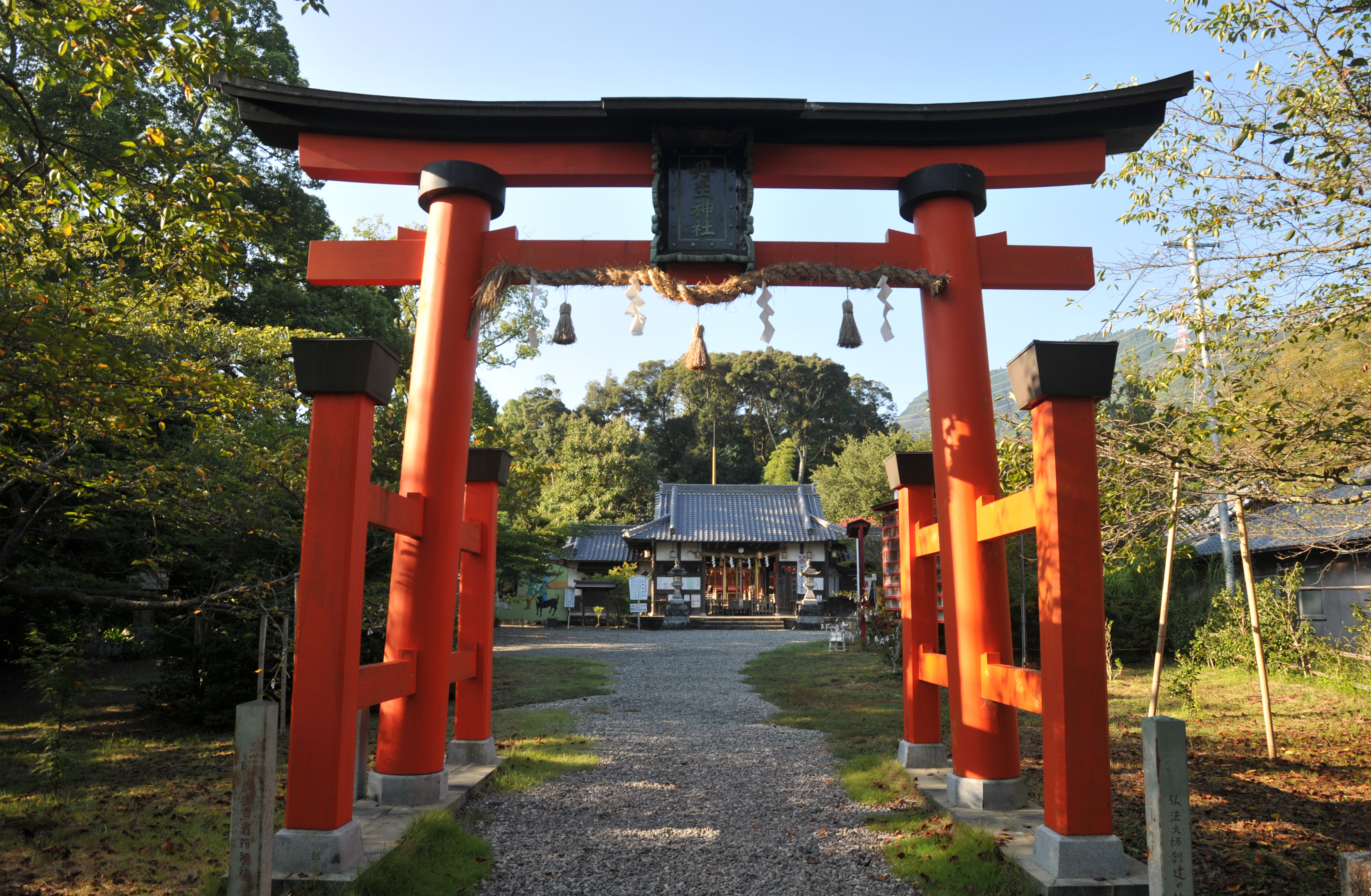 Ni-no-torii, Niukanshōbu-jinja